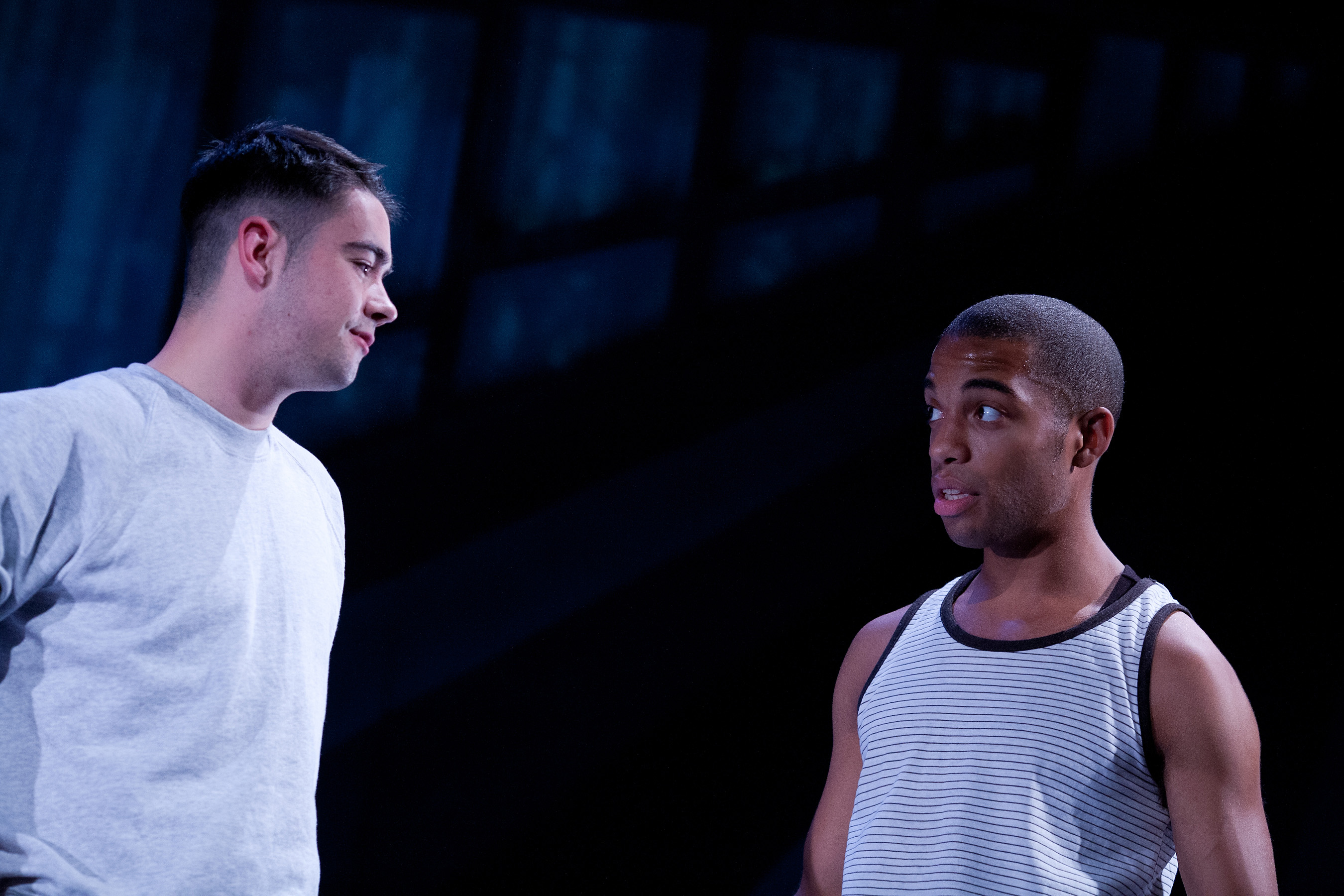 Jack McMullen and Elliot Barnes-Worrell in The Loneliness of the Long Distance Runner by Alan Sillitoe at Pilot Theatre